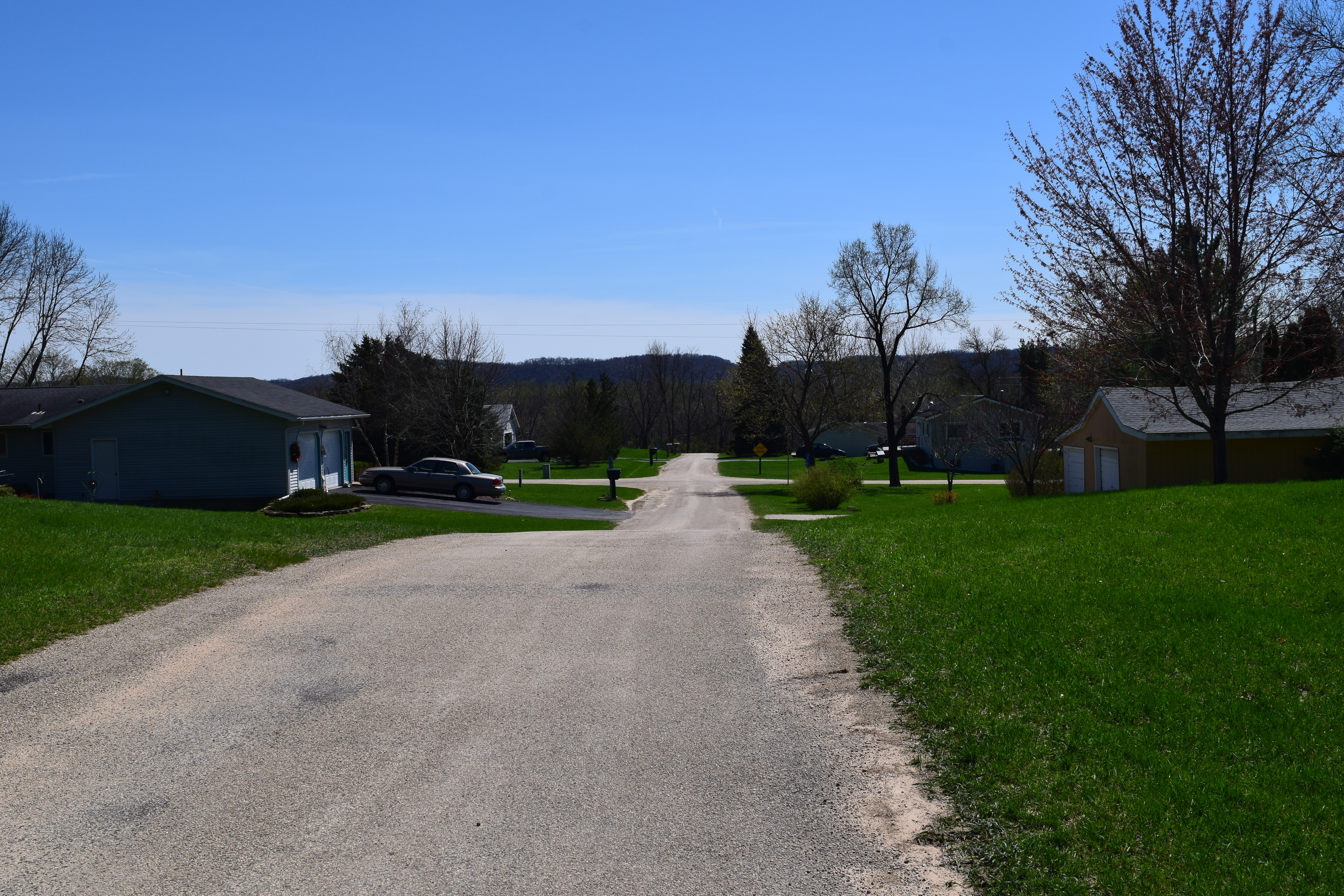 Putnam Street and houses in Orion, Wisconsin.